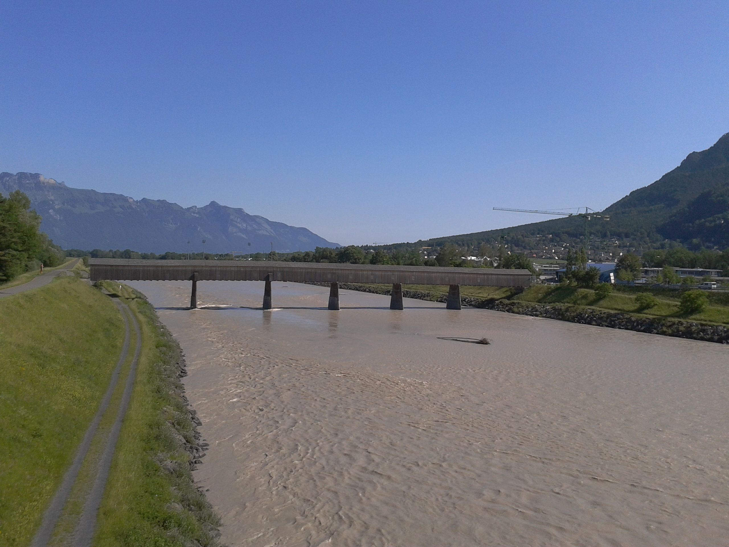 Covered bridge over the Rhine, Liechtenstein. View to Vaduz.